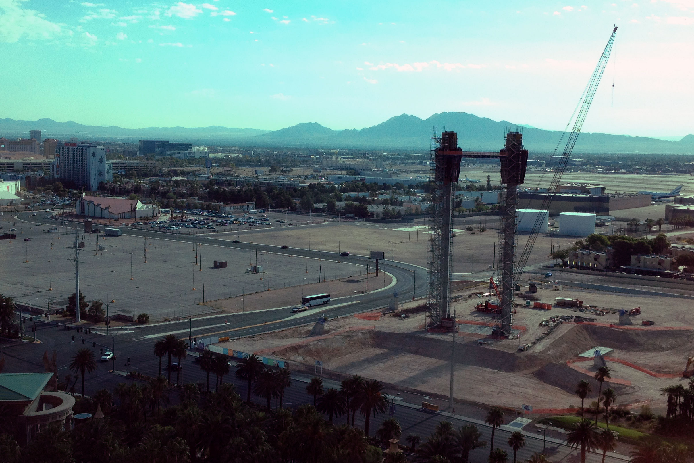 Skyvue ferris wheel in Las Vegas under construction, near the Mandalay Bay hotel and casino